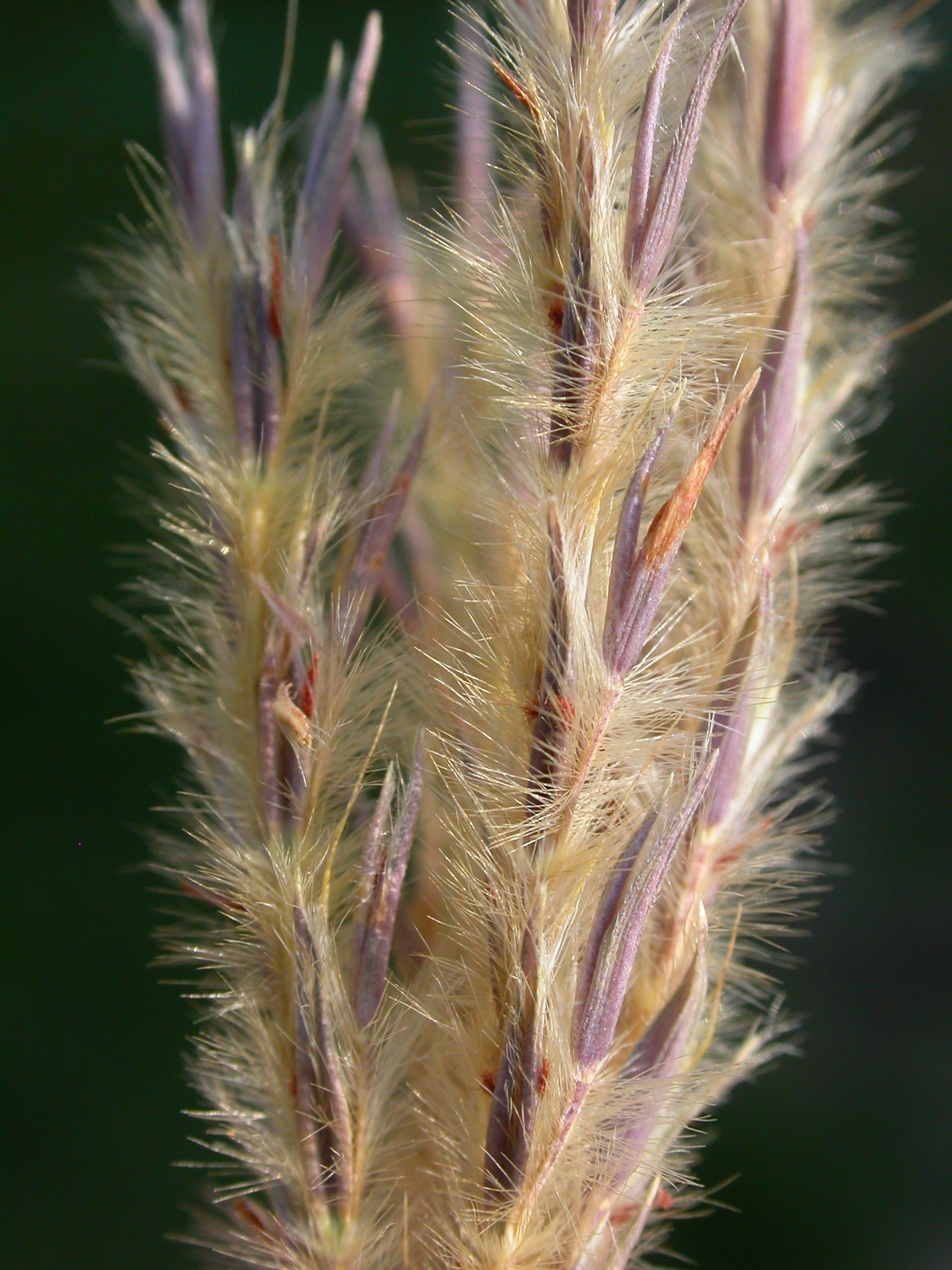 Andropogon hallii in Rosebud Co., MT, USA